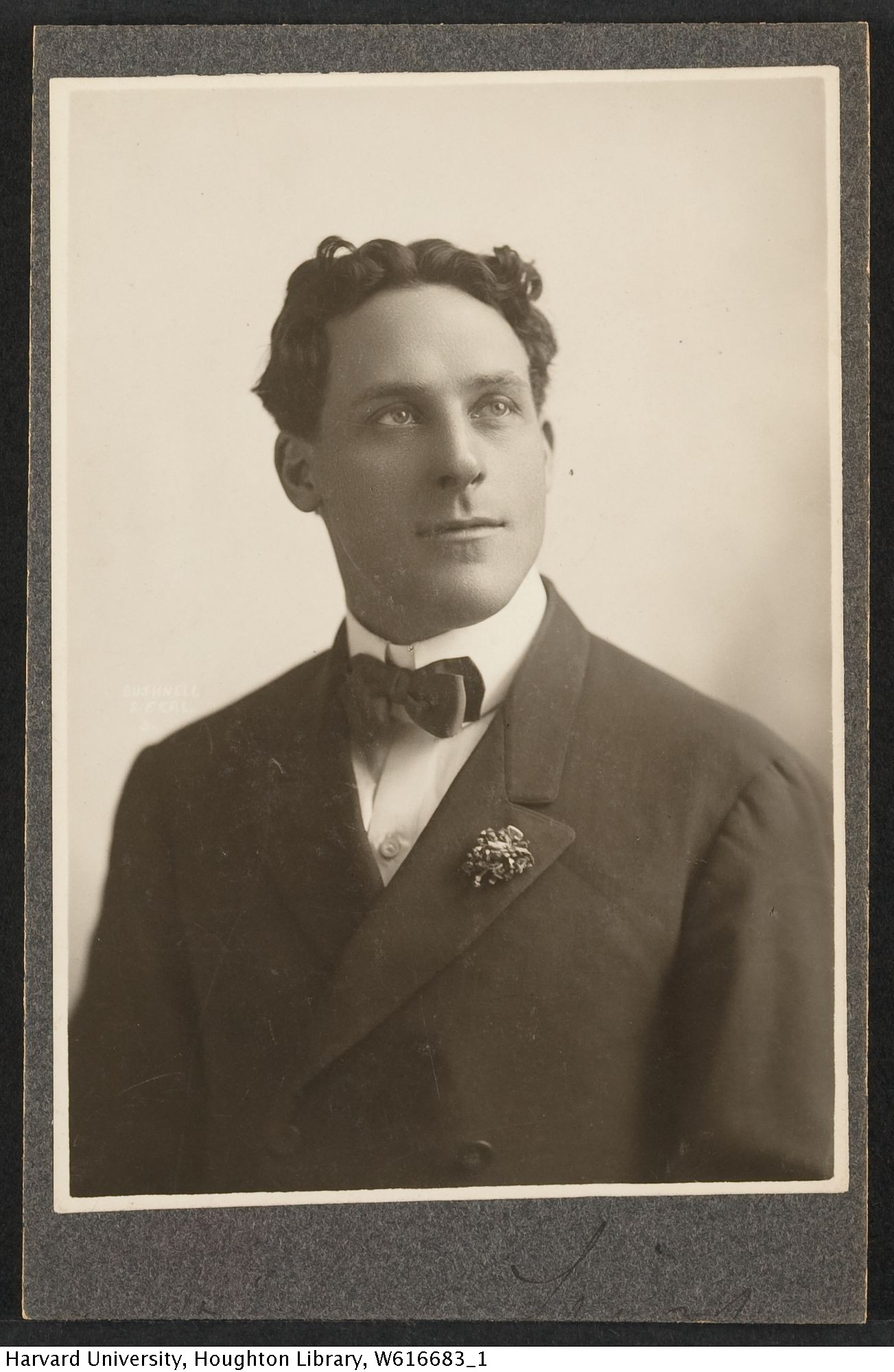 Cabinet card image of American performer and comedian Charles Bowers (1877-1946). From a collection dated 1918. TCS 1.3351, Harvard Theatre Collection, Harvard University